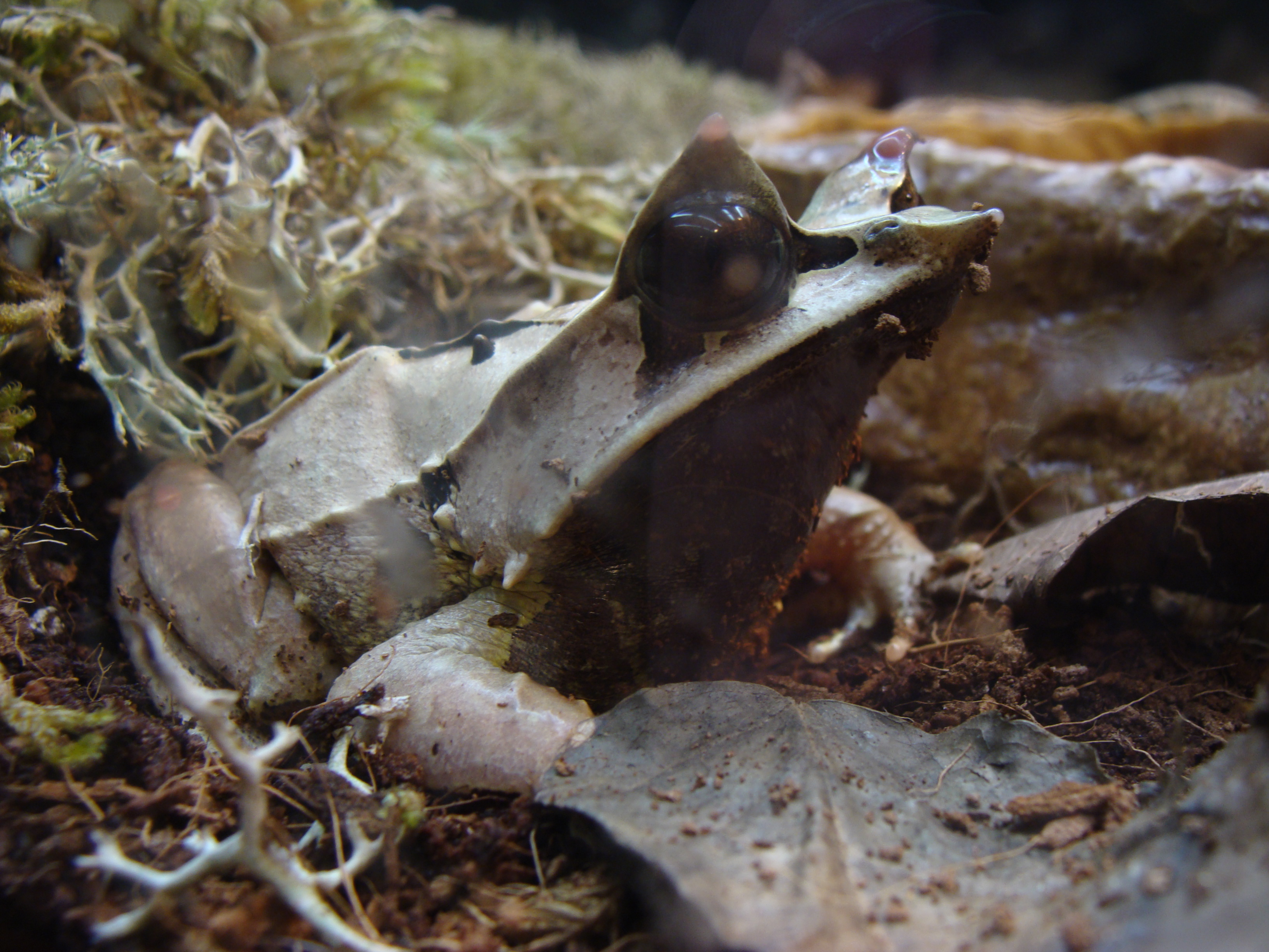 Megophrys nasuta (Long-nosed Horned Frog) in the House of the Sciences), in Corunna, Galicia, Spain